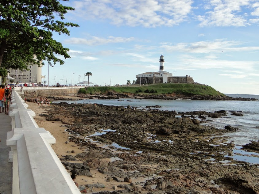 Маяк в бразилии